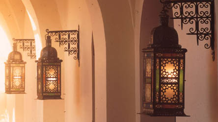 Fanous on the wall